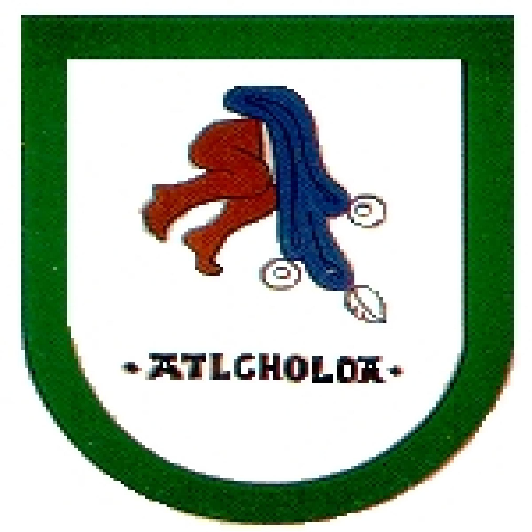 glyph